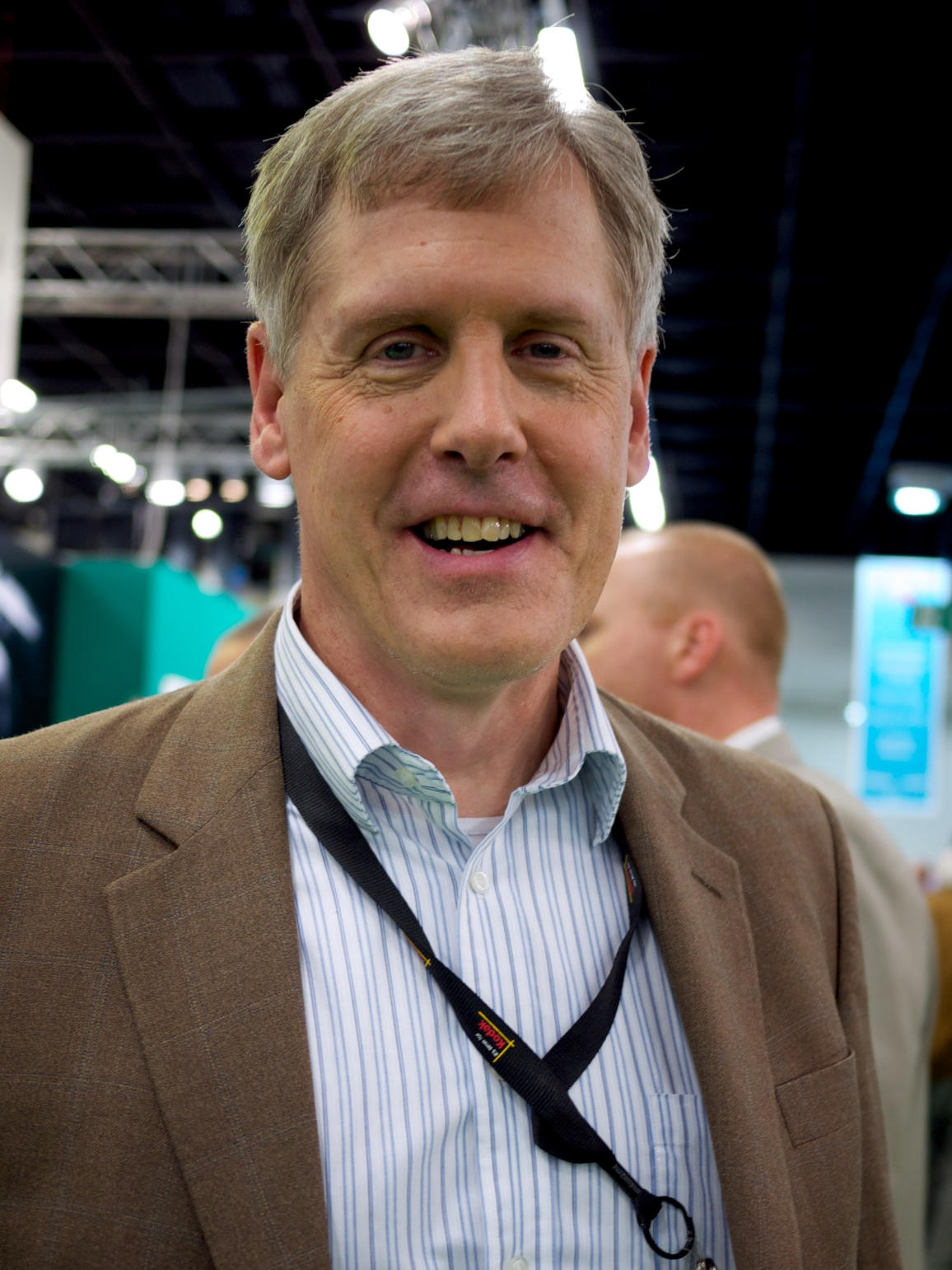 Steven Sasson, the inventor of digital photography, during an appearance at the Kodak booth at Photokina 2010